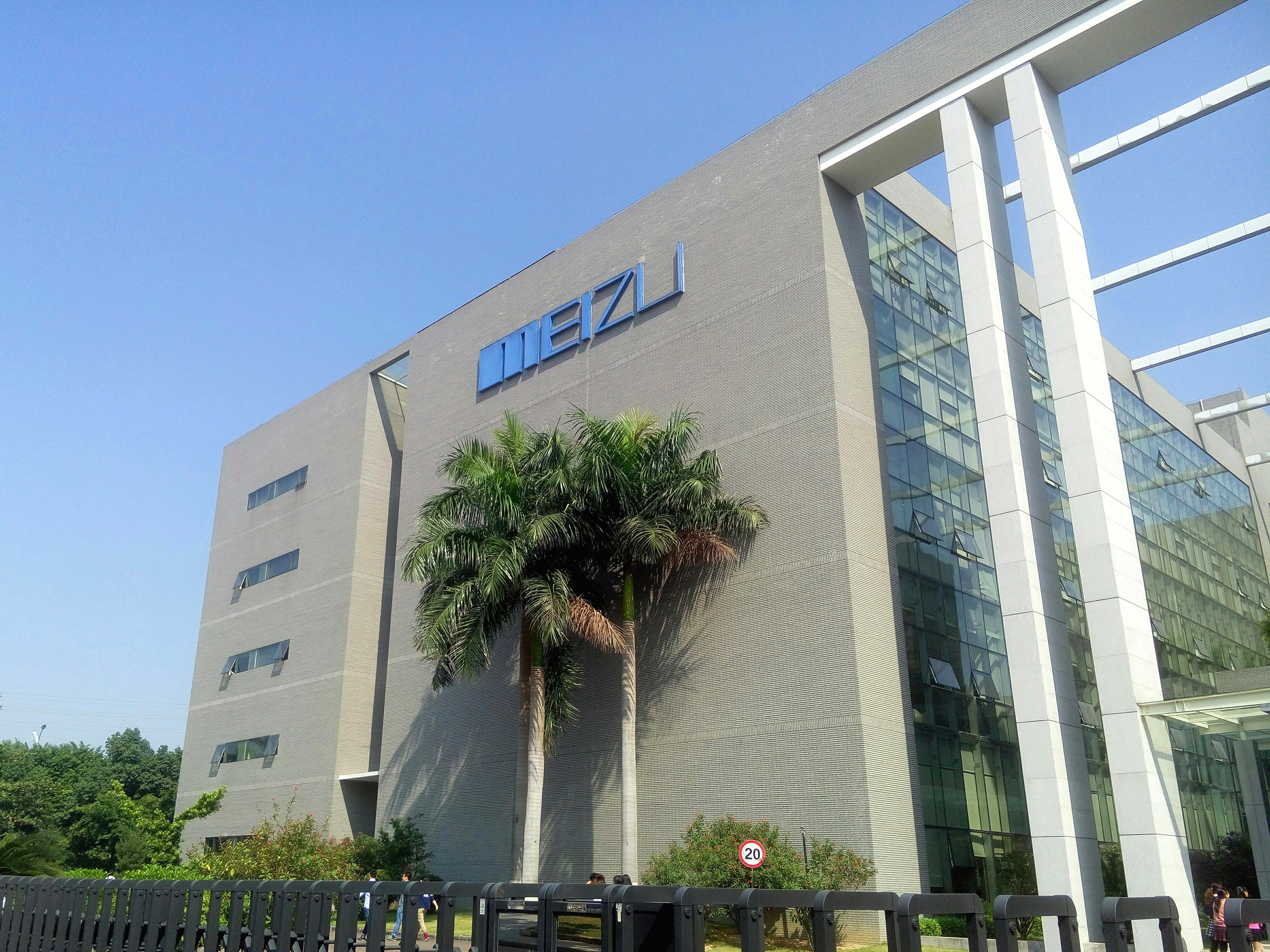 The Meizu headquarters in Zhuhai, Guangdong province, China.